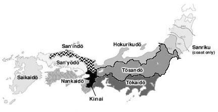 Traditional regions of Japan -- established in late 7th-century -- still used